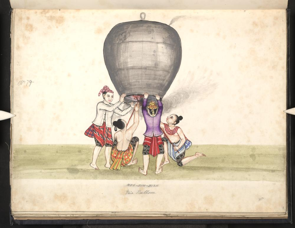 Watercolour painting by an unknown Burmese artist depicting 19th century Burmese life. Text: MEE-EIM-BYAN Fire balloon. Shelfmark: Ms. Burm. a. 5